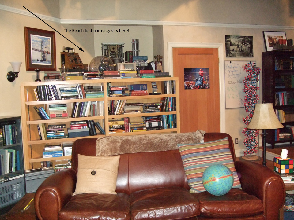 The Big Bang Theory set visit.